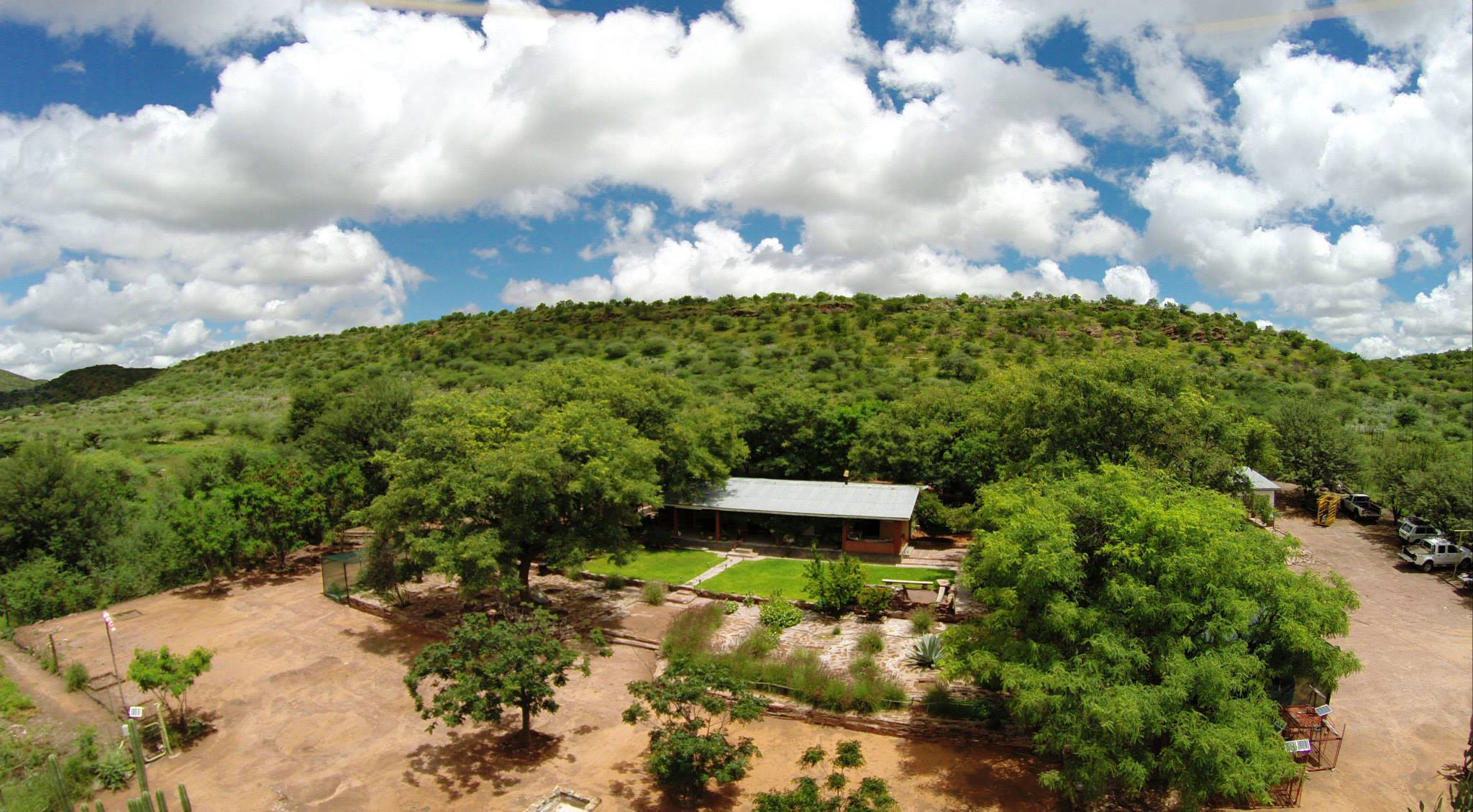 Research station of the Leibniz Institute for Zoo- and Wildlife Research in Namibia. The Research station is located in the central farmlands of Namibia. Research projects focus on carnivores such as the cheetah and human-wildlife interaction